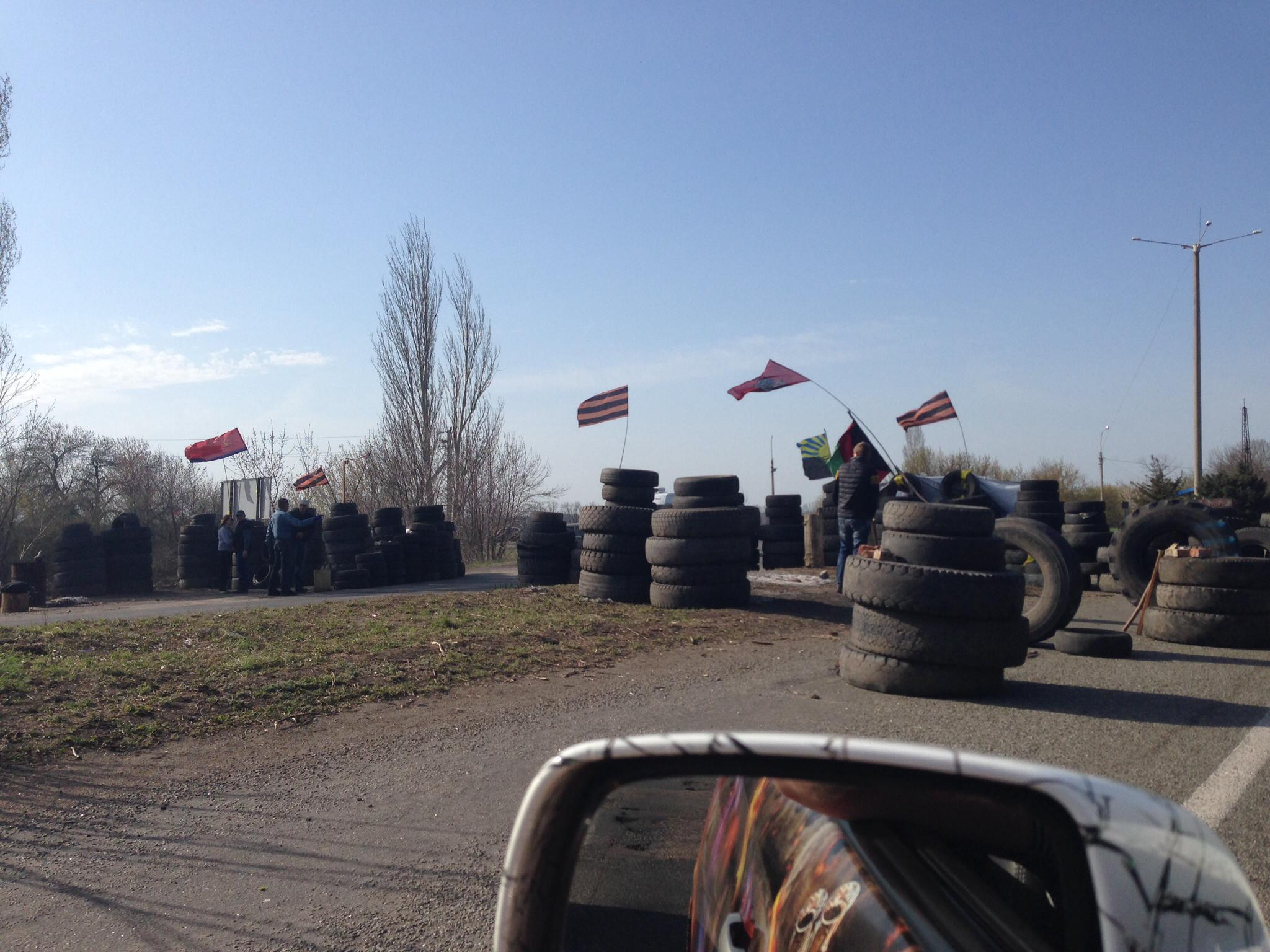 Checkpoint in Donetsk oblast, Ukraine, during the Sloviansk standoff. The author of this photo, Aleksandr Sirota, visited his parents in Sloviansk on Easter holidays.